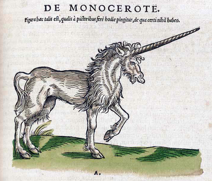 Unicorn (Monoceros). Conrad Gesner, Historiae Animalium; liber primus, qui est de quadrupedibus viviparis, Zurich, 1551.